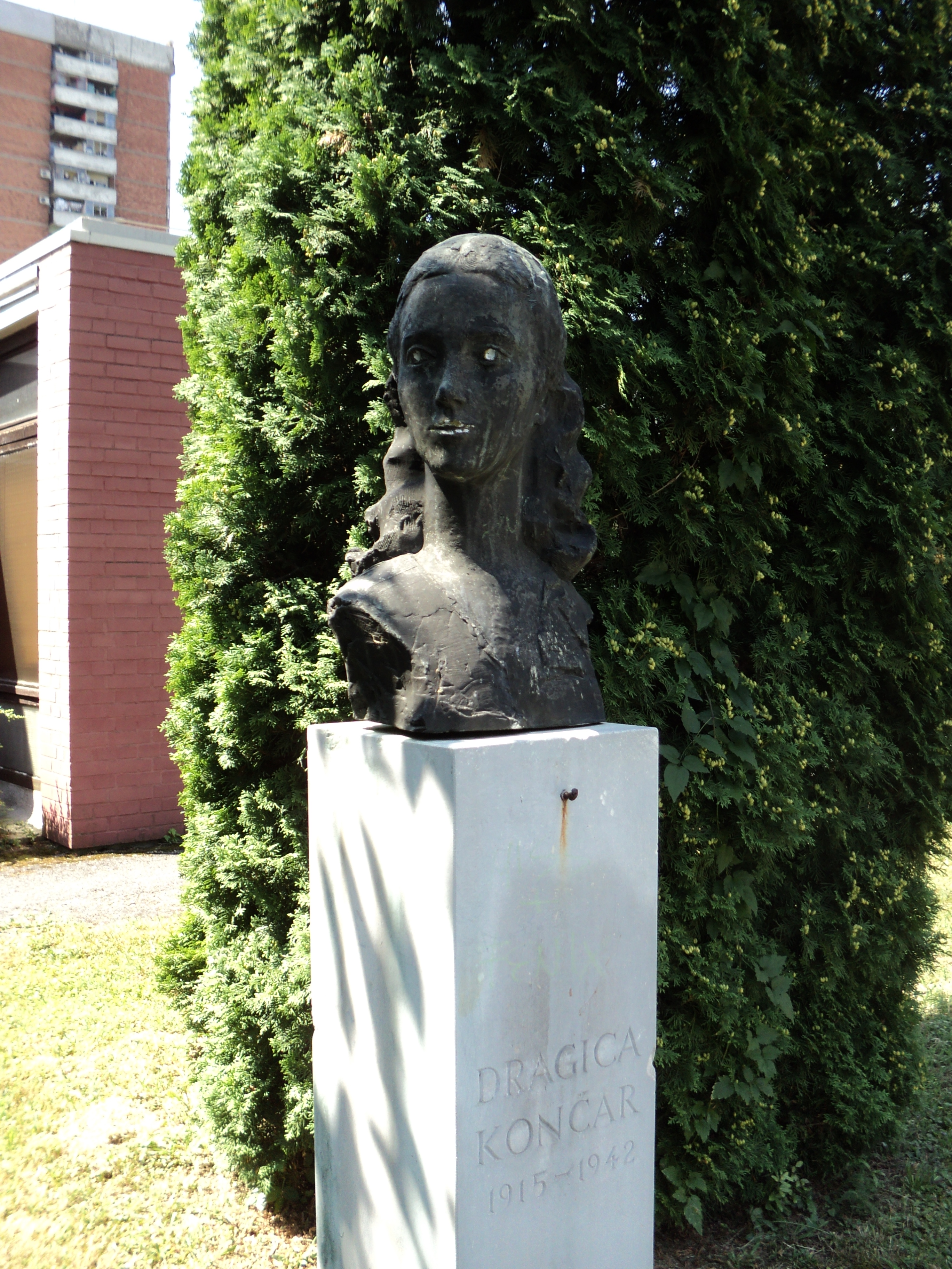 Bust of People's Hero of Yugoslavia, Dragica Končar (1915-1942), in Zagreb.